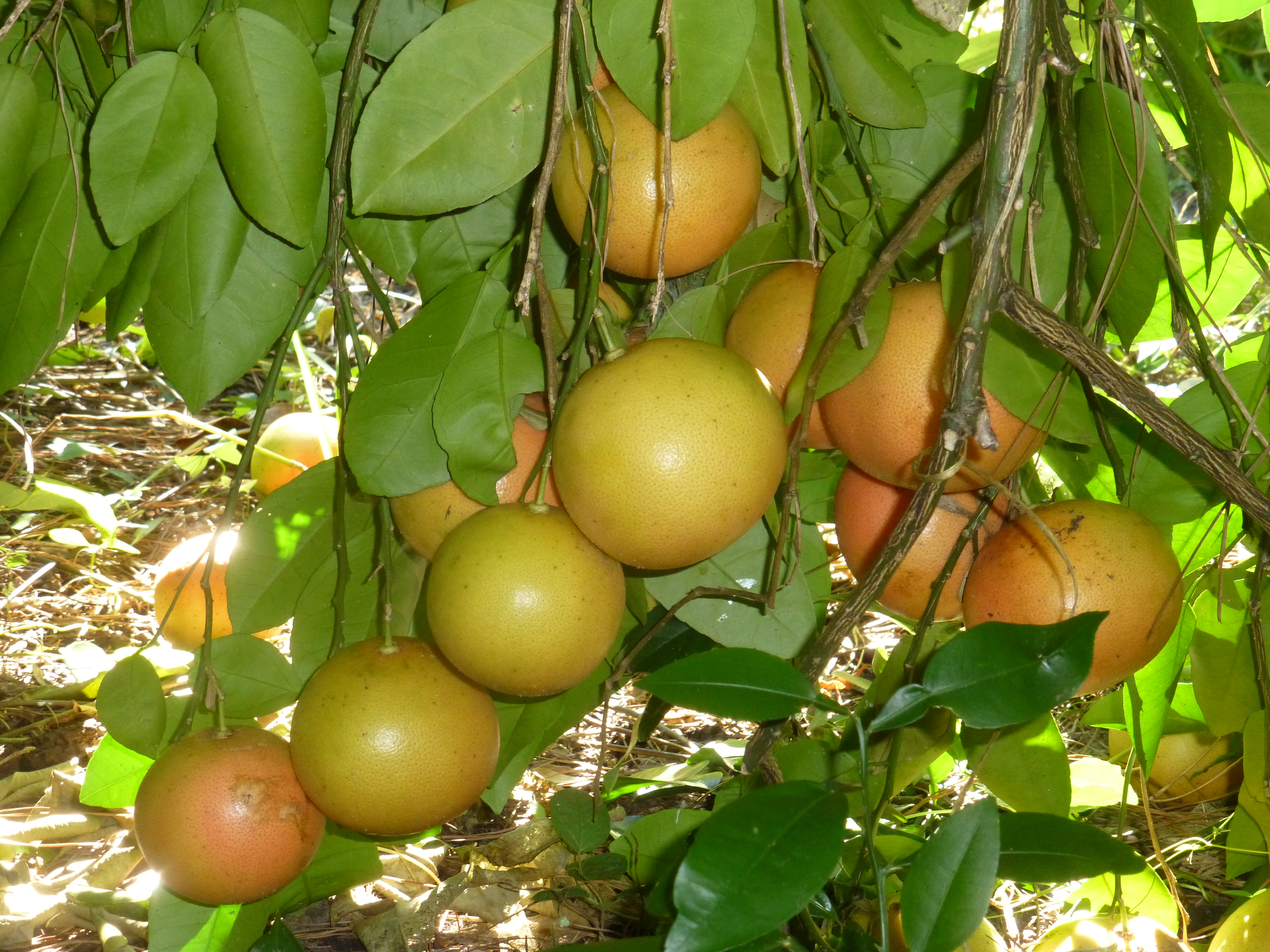 Grapefruit growing in the grape-like clusters from which their name derives. Variety: Red Flame